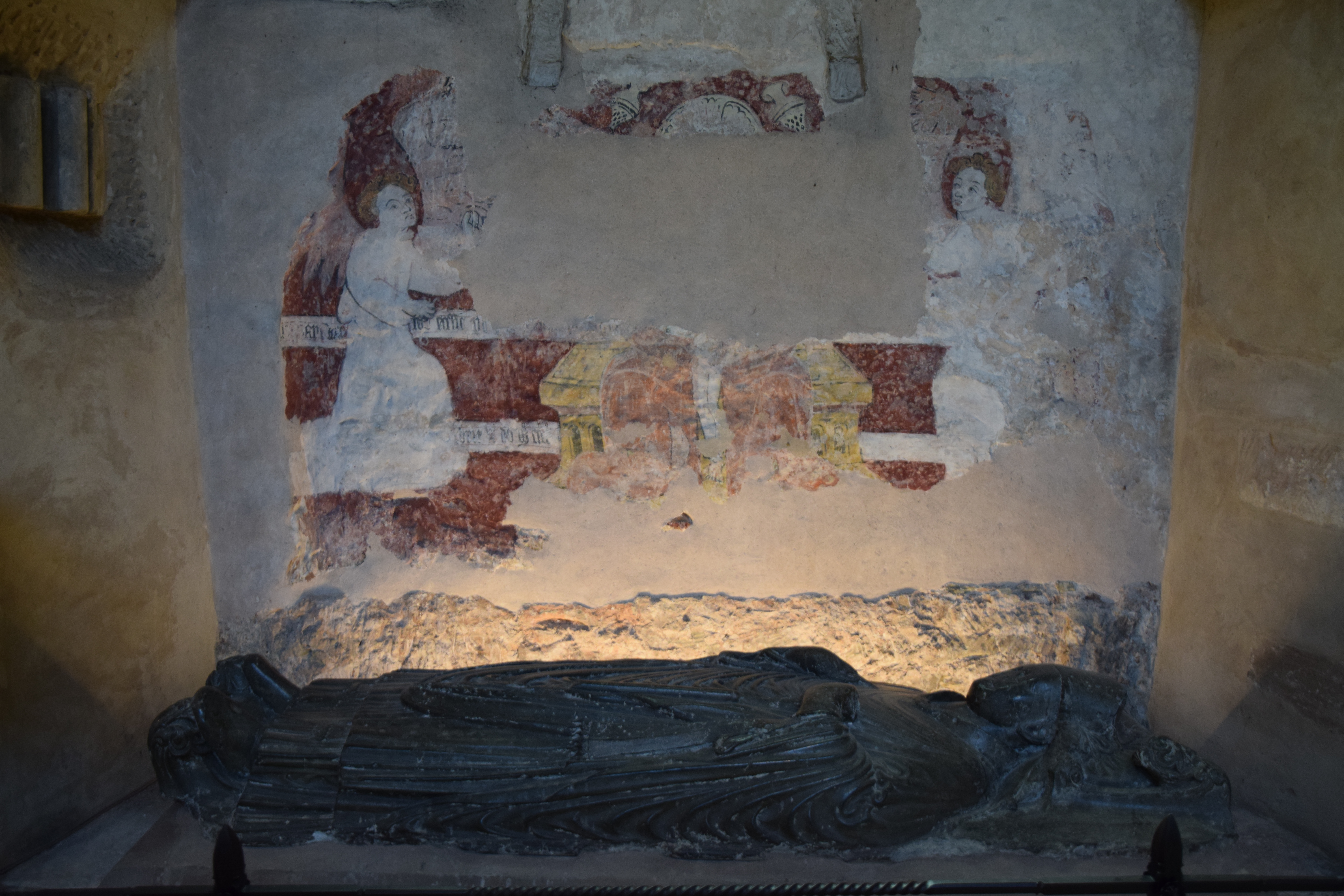 Lichfield Cathedral: effigy of Walter Langton (died 1321) Bishop of Coventry and Lichfield and Treasurer of England. Originally under a sculpted stone gothic canopy. Medieval wall painting above.